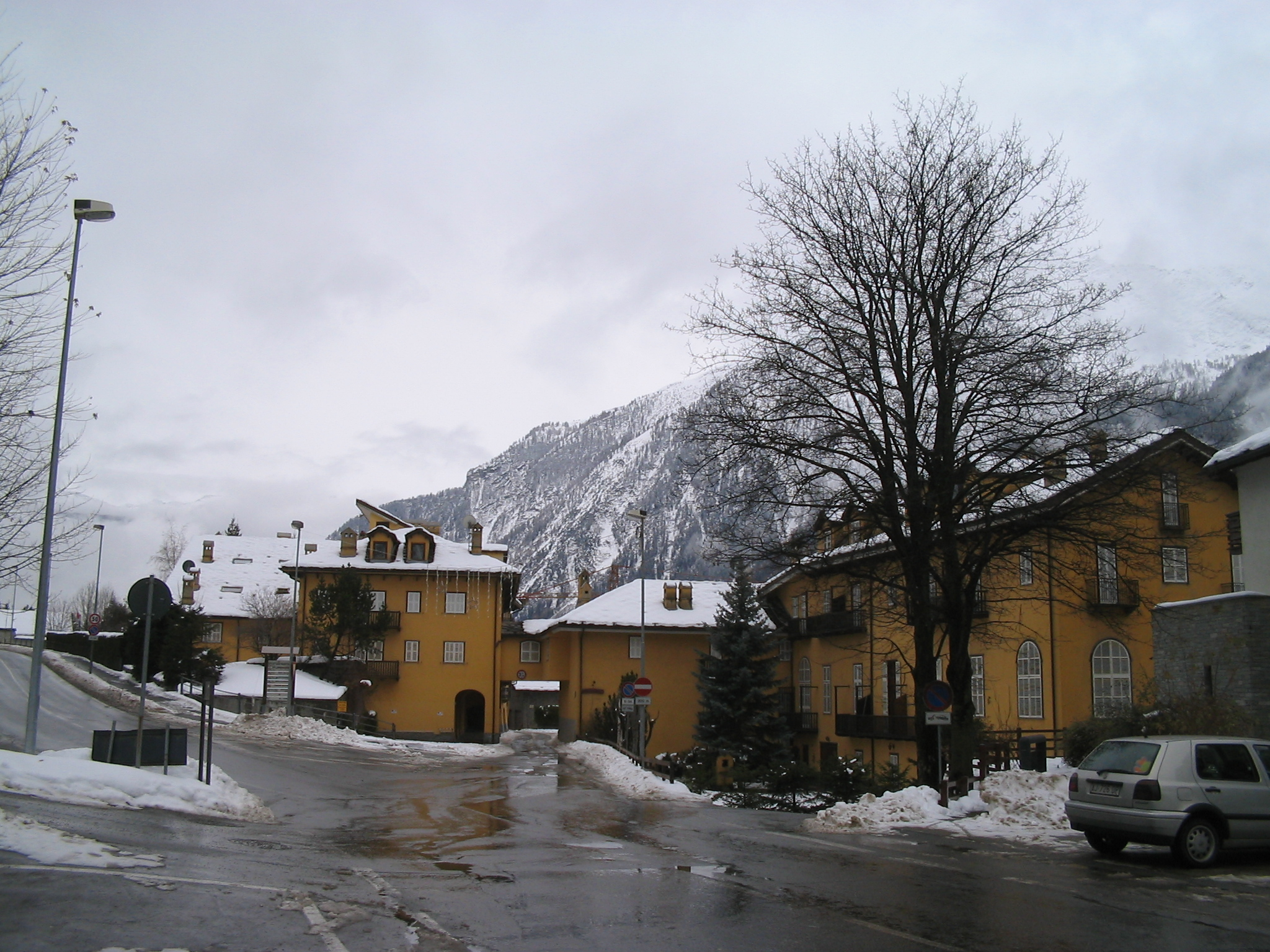 A view of the town of Courmayeur, Aosta Valley, Italy.